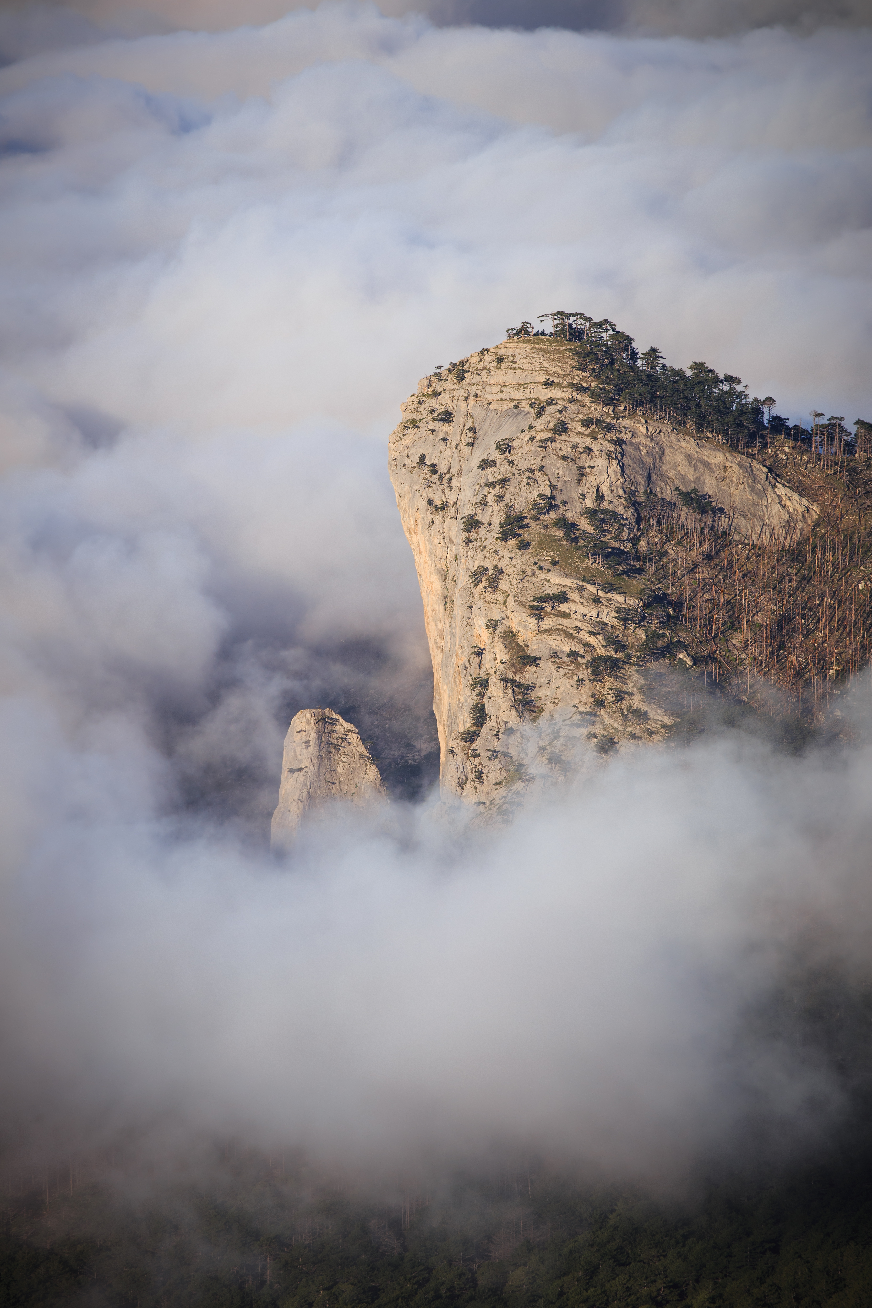 Mount Shaan-Kaya in Clouds. Yalta Natural Reserve, Republic of Crimea